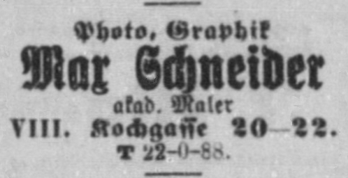 Max Schneider: Entry in the business directory.